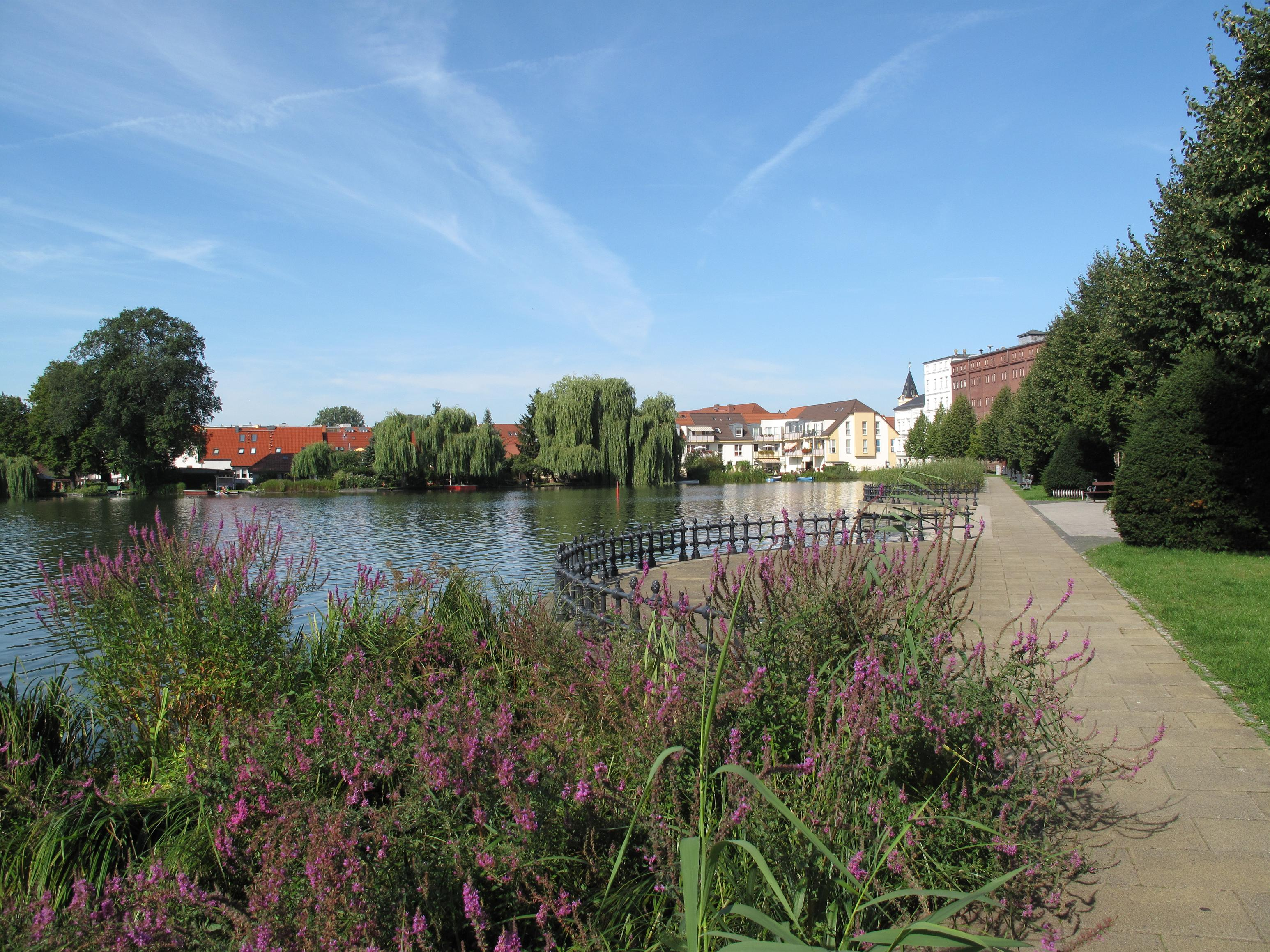 Lake promenade at the northern bank of the Großer Müllroser See in Müllrose. The lake is situated between the town Müllrose in the north and the municipality Mixdorf in the south in the District Oder-Spree, Brandenburg, Germany. The lake covers 1,32 km² and is a part of the Schlaube Valley Nature Park.